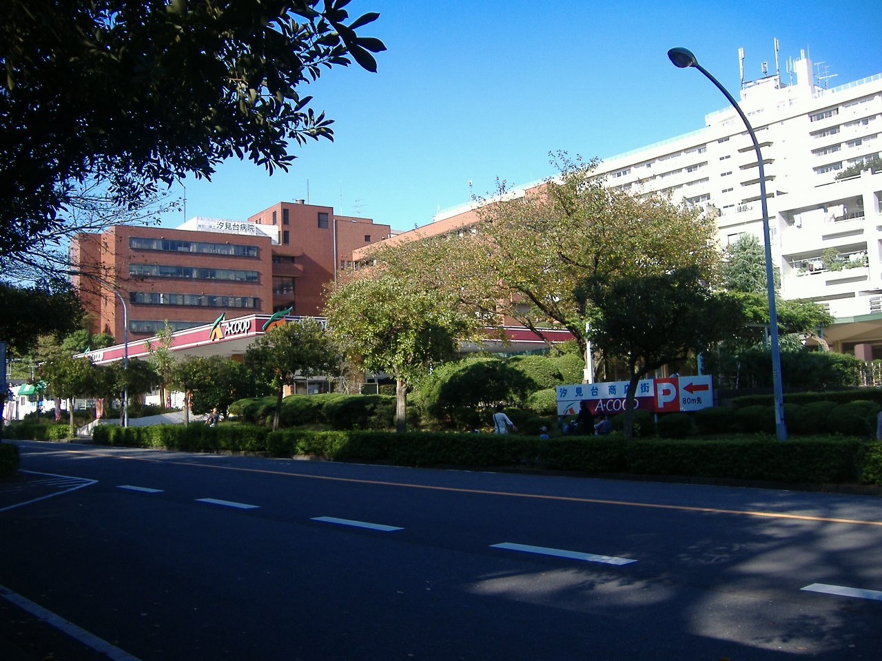 Shiomidai Town (Yokohama, Japan)